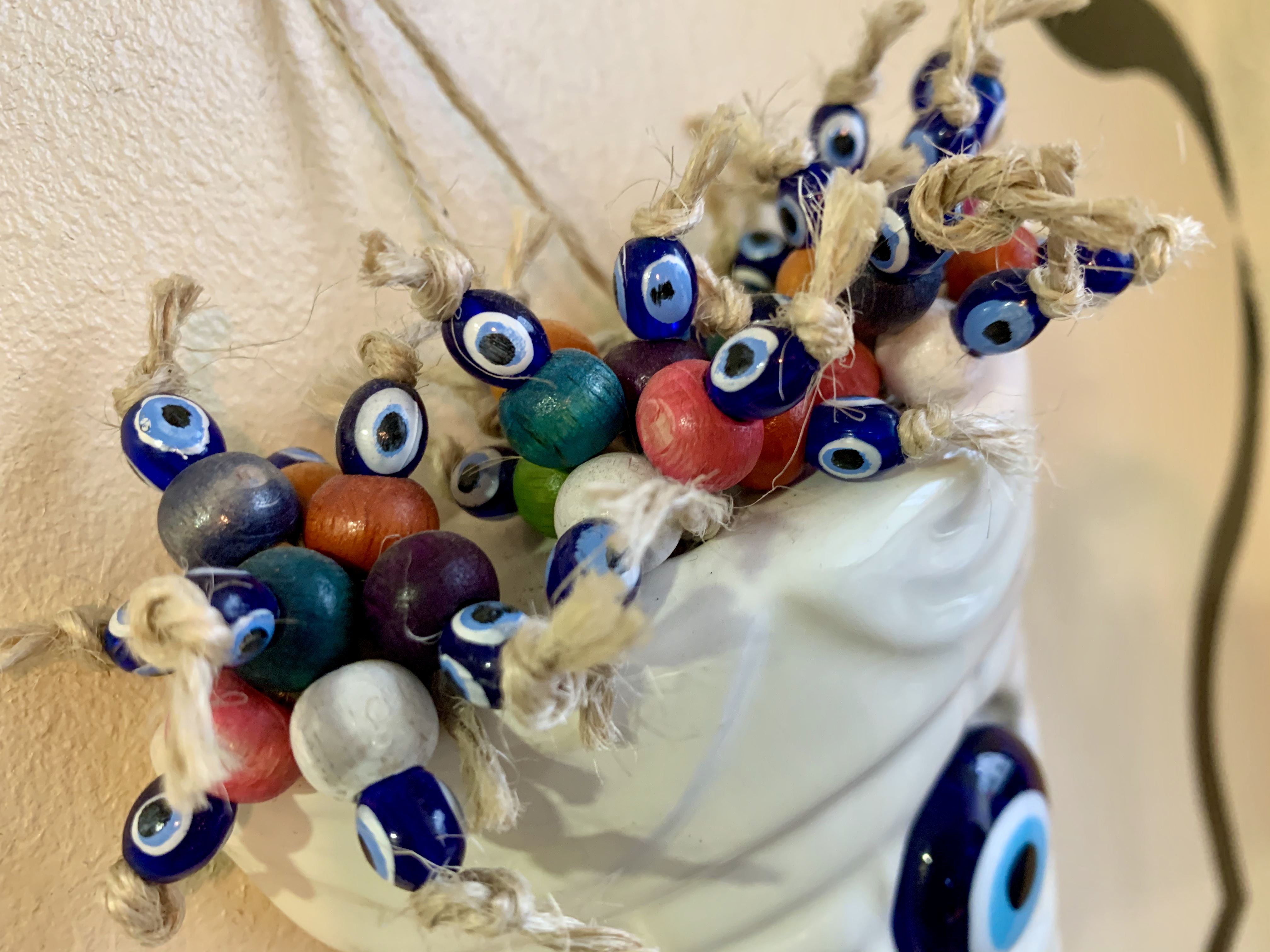 Nazar charm / amulet in Regensburg, Germany in Turkish fastfood restaurant in year 2019. Waiter claims he has no idea what this is.